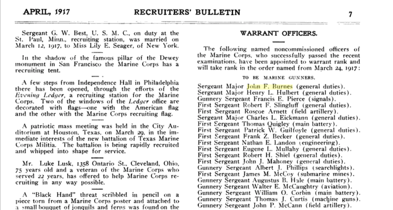 List of the 20 enlisted Marines appointed to Warrant Rank in the US Marine Corps on 24 March 1917, from the "Recruiters' Bulletin" April 1917, p. 7.